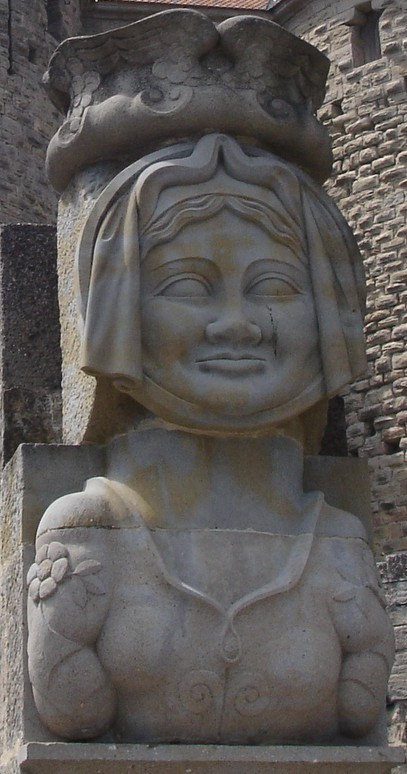 Dame Carcas, Carcassonne, France, cropped version.